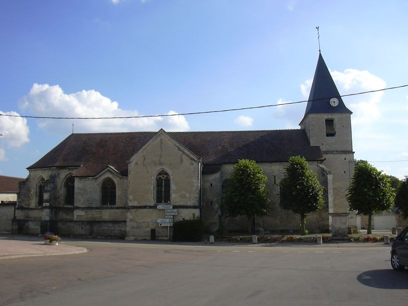 Saint-Sylvestre's church in Lignol-le-Château (Aube, Champagne-Ardenne, France).